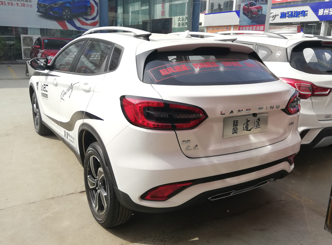 Landwind Xiaoyao photographed in Zhengzhou, Henan province, China.